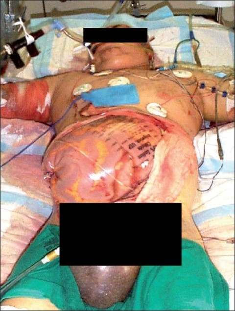 Decompression laparotomy for abdominal compartment syndrome in a burn patient.